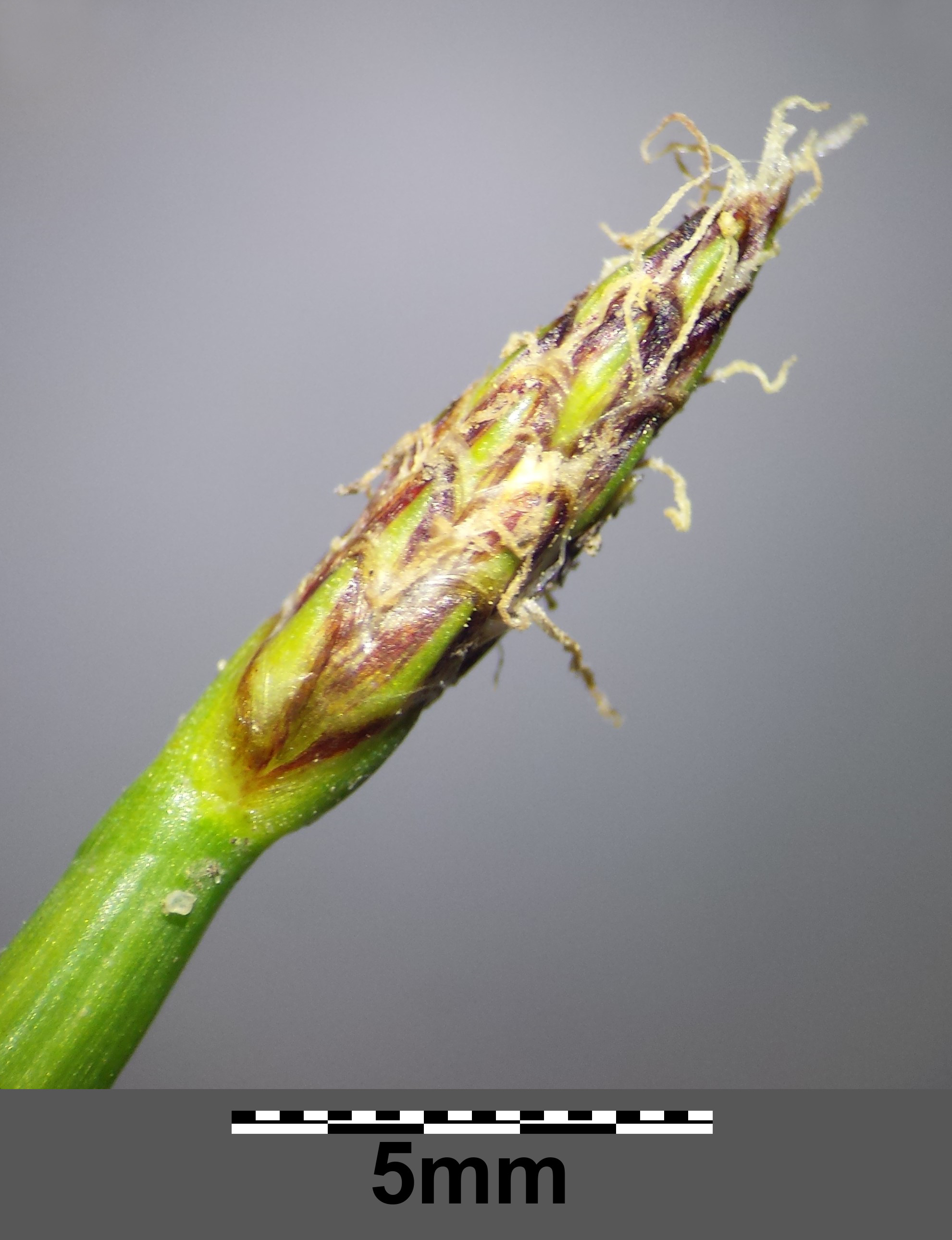 Inflorescence Taxonym: Eleocharis mamillata subsp. mamillata ss Fischer et al. EfÖLS 2008 ISBN 978-3-85474-187-9 Location: pond to the south of Pyhrabruck, district Gmünd, Lower Austria - ca. 550 m a.s.l. Habitat: ground of a pond